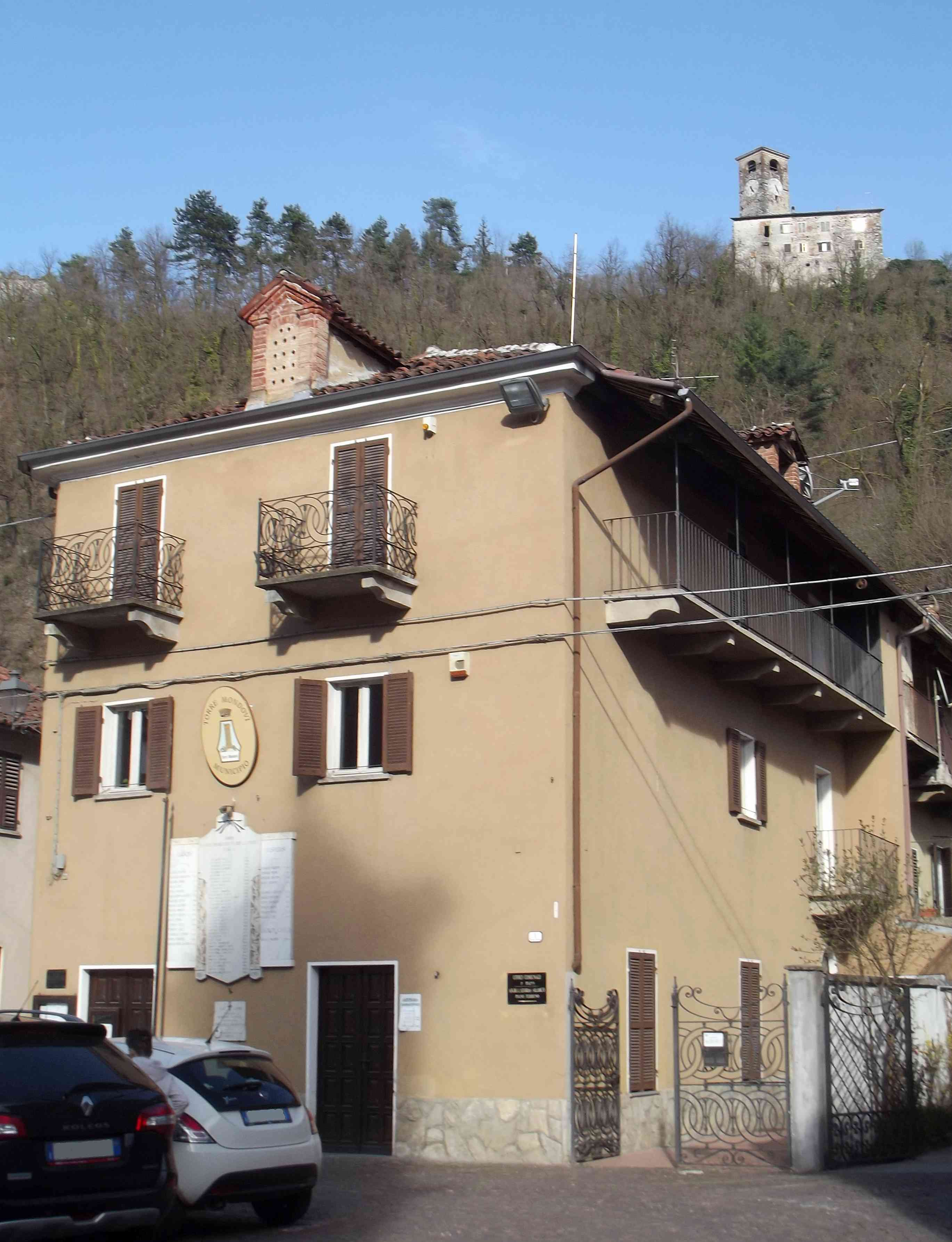 Torre Mondovì (CN, Italy): town hall